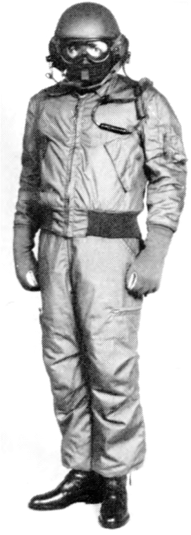 M1 Crew Outfit